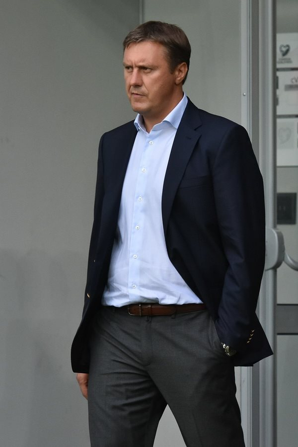 Alyaksandr Khatskevich